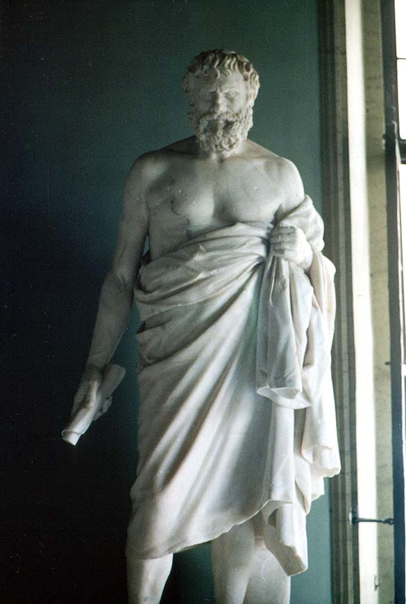 Statue of an unknown Cynic philosopher from the Capitoline Museum in Rome. Roman-era copy of an earlier Greek statue from the 3rd century BC.